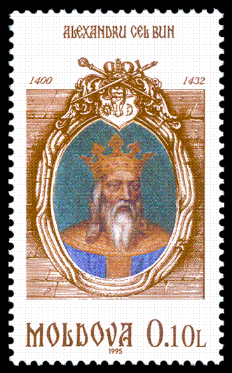 Alexandru cel Bun (1400-1432). Pursues the consolidation of the centralised feudal state. Strengthened the organisation of the military. Contributed to the recognition of the metropolitan bishops seat Suceava by the Constantinople patriarchy.